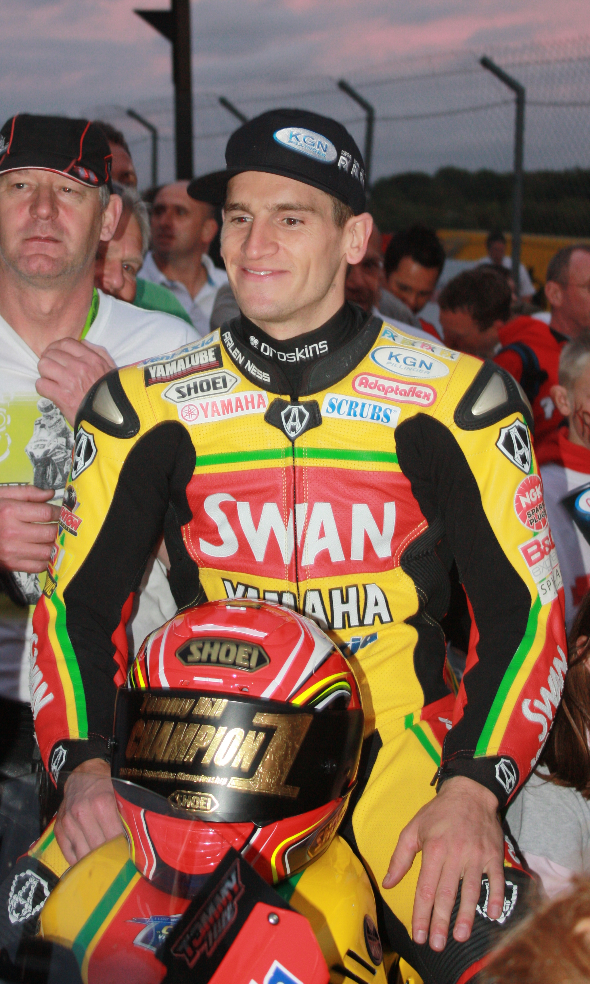 This Picture was taken at Brands Hatch 9th October 2011 when Hill beat John Hopkins by 0.006 of a second to the chequered flag.